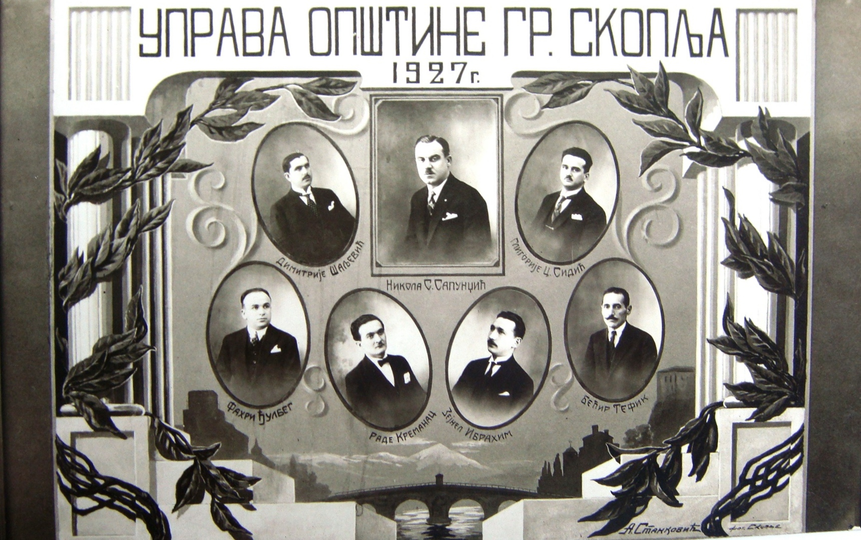 Historical images of Skopje: Office of the City of Skopje 1927. This media file is produced by Wikipedian in Residence in Category:Wikipedian in Residence at DARM in 2016.